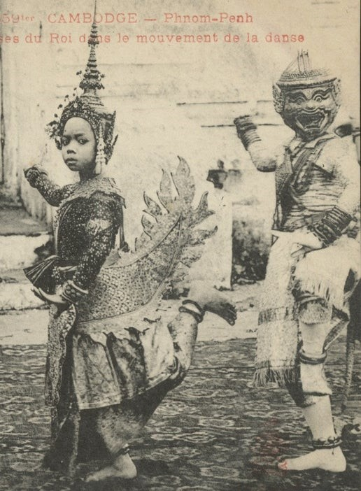 Royal dancer troupe of King Sisowat in 1906. Taken by Joel G. Montague